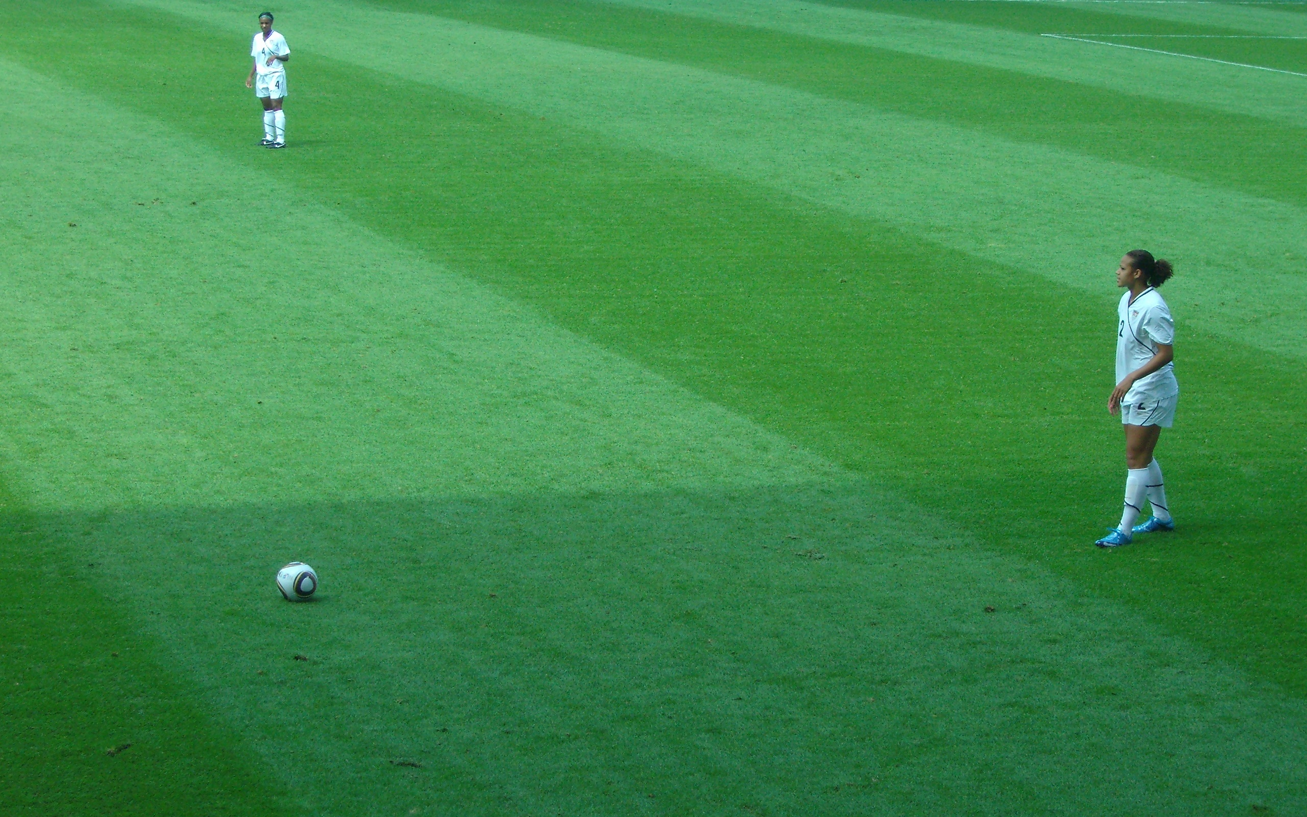 USA-Nigeria at 2010 FIFA U-20 Women's World Cup in Impuls Arena as “FIFA Women's World Cup Stadium Augsburg”:Toni Pressley (2) at free kick. Background: Crystal Dunn (4).